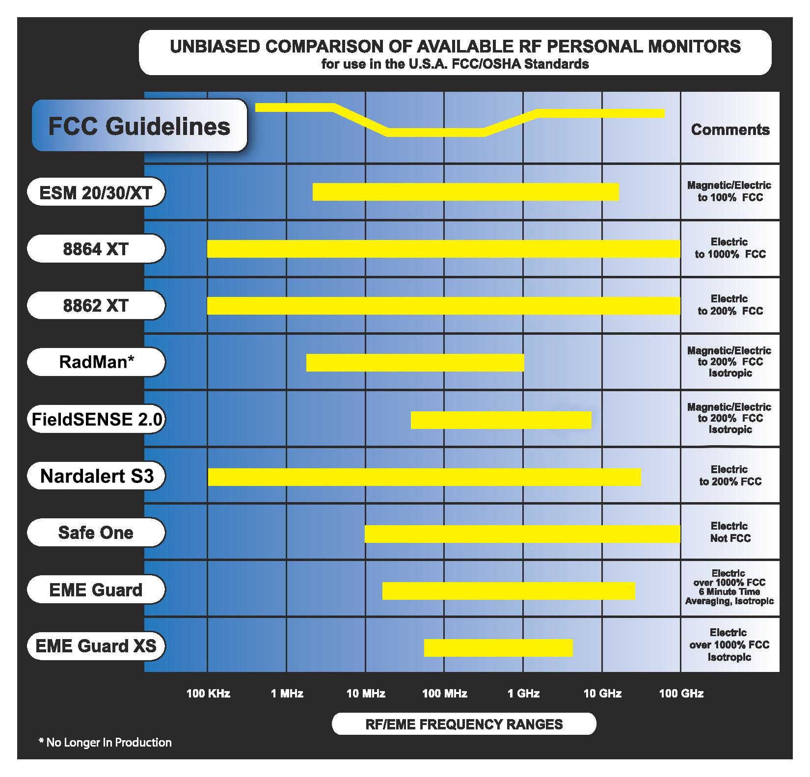 RF monitor comparison